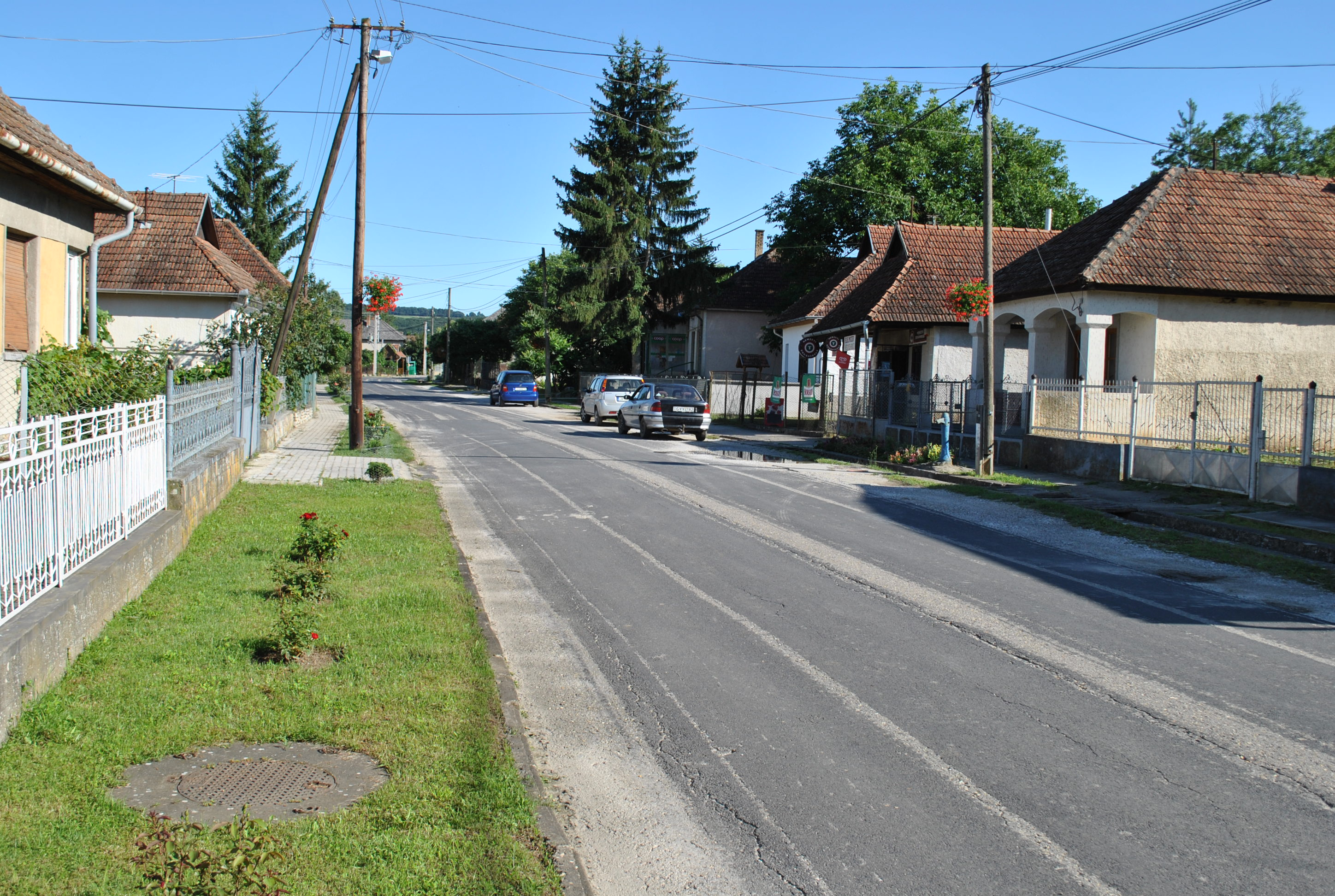 Fő u., Meszes, Hungary